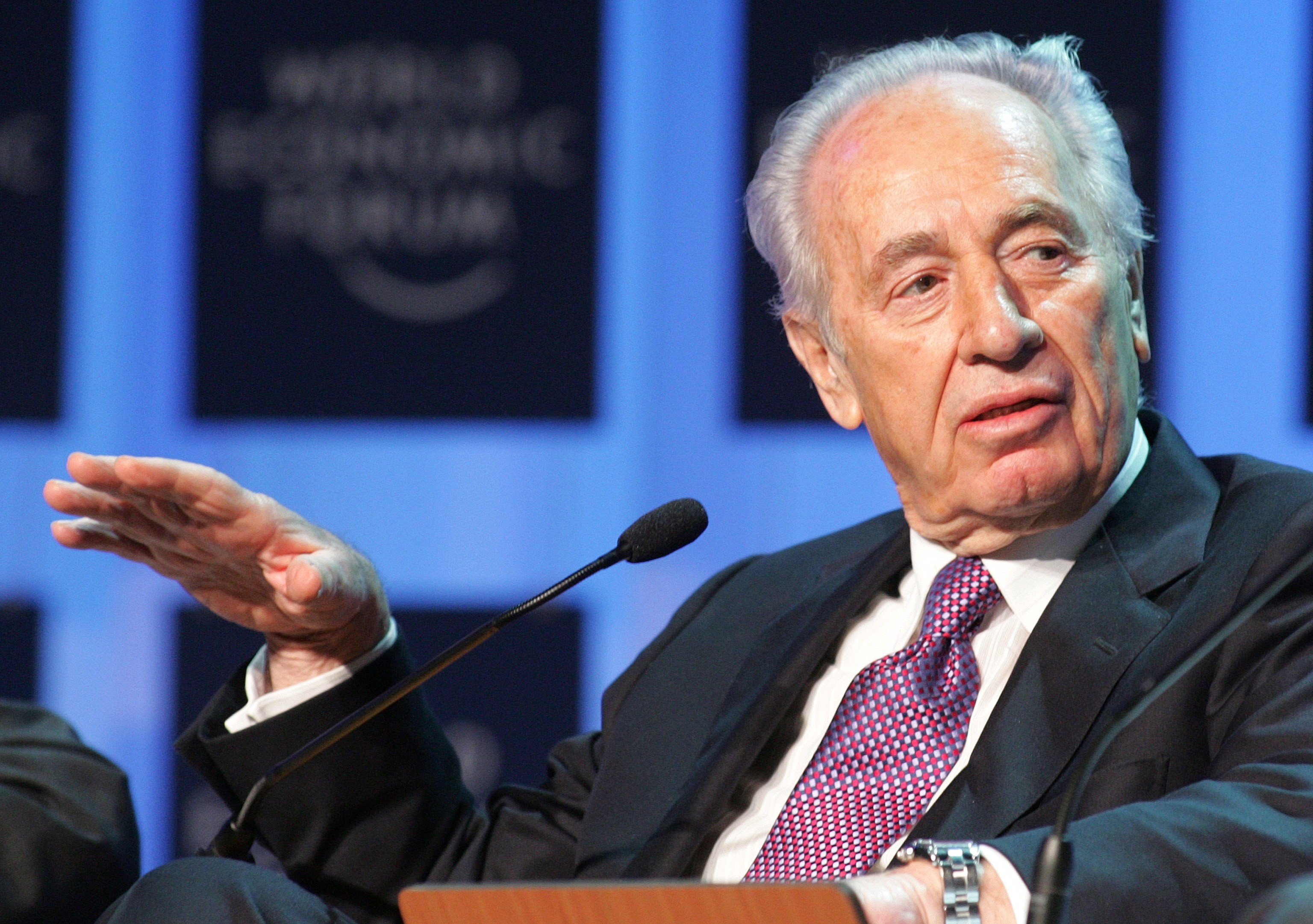 DAVOS/SWITZERLAND, 28JAN05 - Shimon Peres, Vice-Prime Minister of Israel and Chairmanof the Labour Party, expresses his thoughts during the session 'Is the Peace Process Poised for a Resurrection?' at the Annual Meeting 2005 of the World Economic Forum in Davos, Switzerland, January 28, 2005. Copyright by World Economic Forum by Marcel Bieri